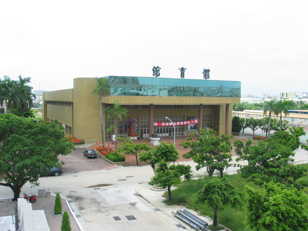 Kun Shan University Gymnasium, Taiwan